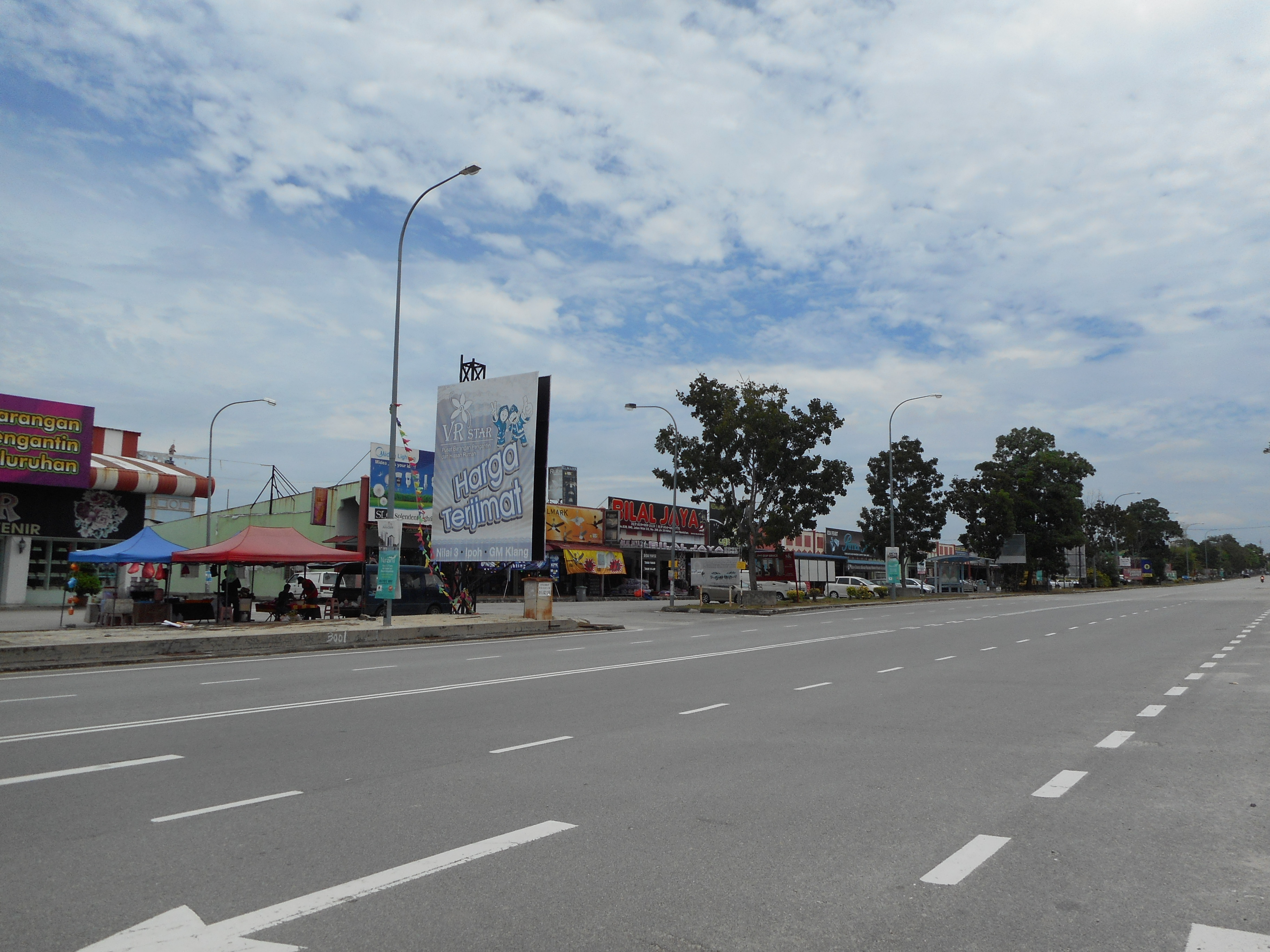 Nilai 3 Wholesale Centre, Nilai, Seremban, Negeri Sembilan, Malaysia